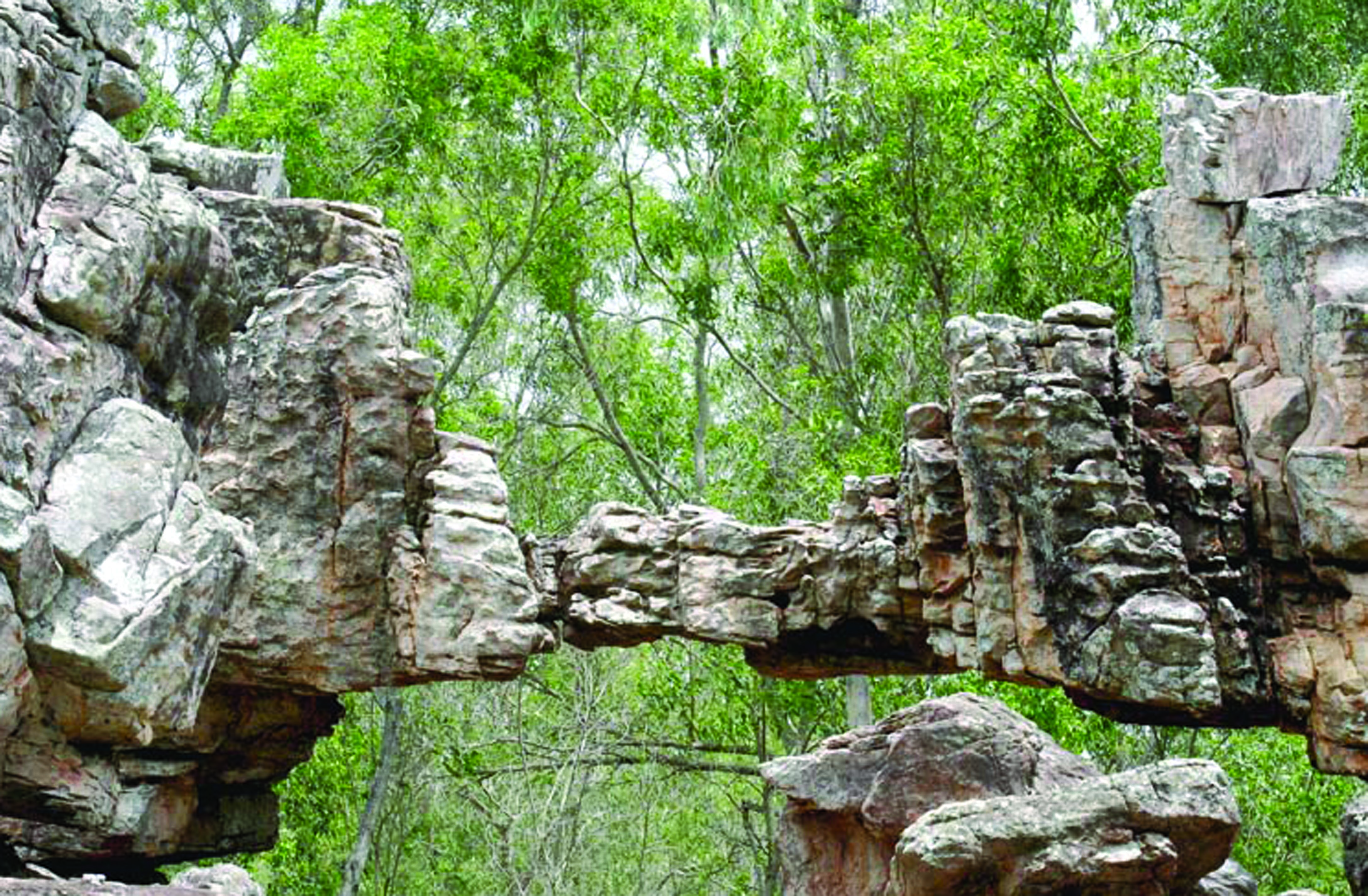 The Natural Arch in the Tirumala hills is distinctive and popular geological wonder. This is situated around 1 km to the north of the Tirumala hills temple, Andhra Pradesh, India. The arch is 8m wide and around 3m high.